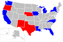 This is a thumbnail image of a U.S. map with SENSOR-Pesticides states highlighted. California, Florida, Iowa, Louisiana, Michigan, New York, North Carolina, and Washington State are blue; Nebraska, New Mexico, Oregon, and Texas are red.States receiving federal funding for participation are shown in shown in blue and the unfunded state program partners are red.